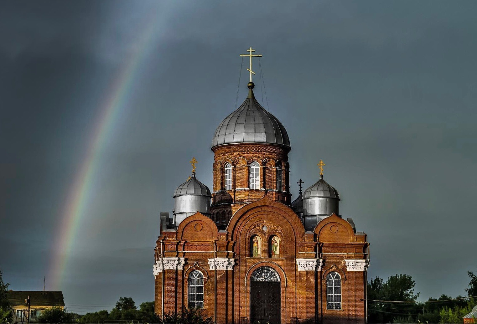 Monastery of St. Mary Magdalene